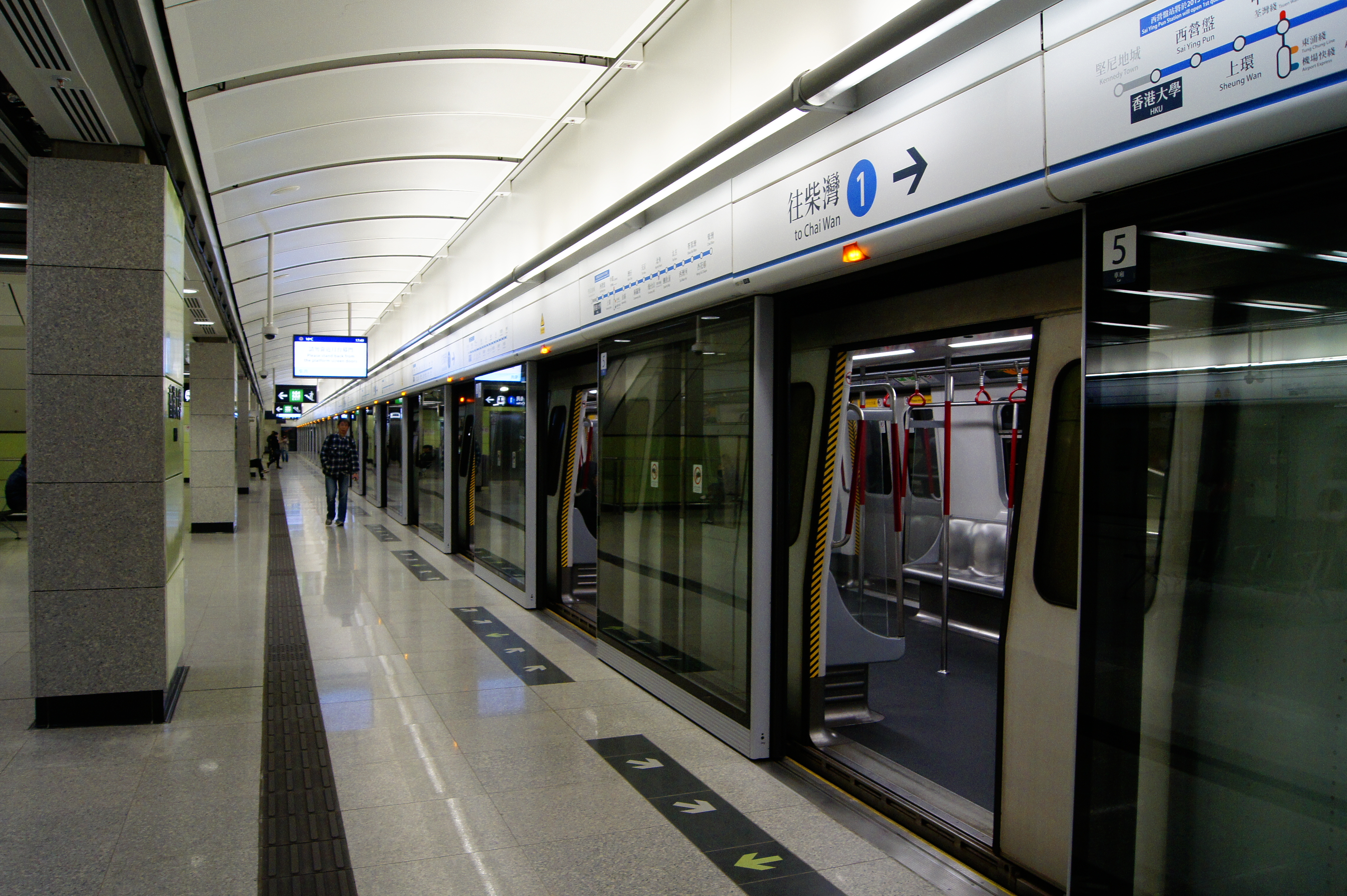 MTR HKU station platform 中文（香港）: 港鐵香港大學站月台